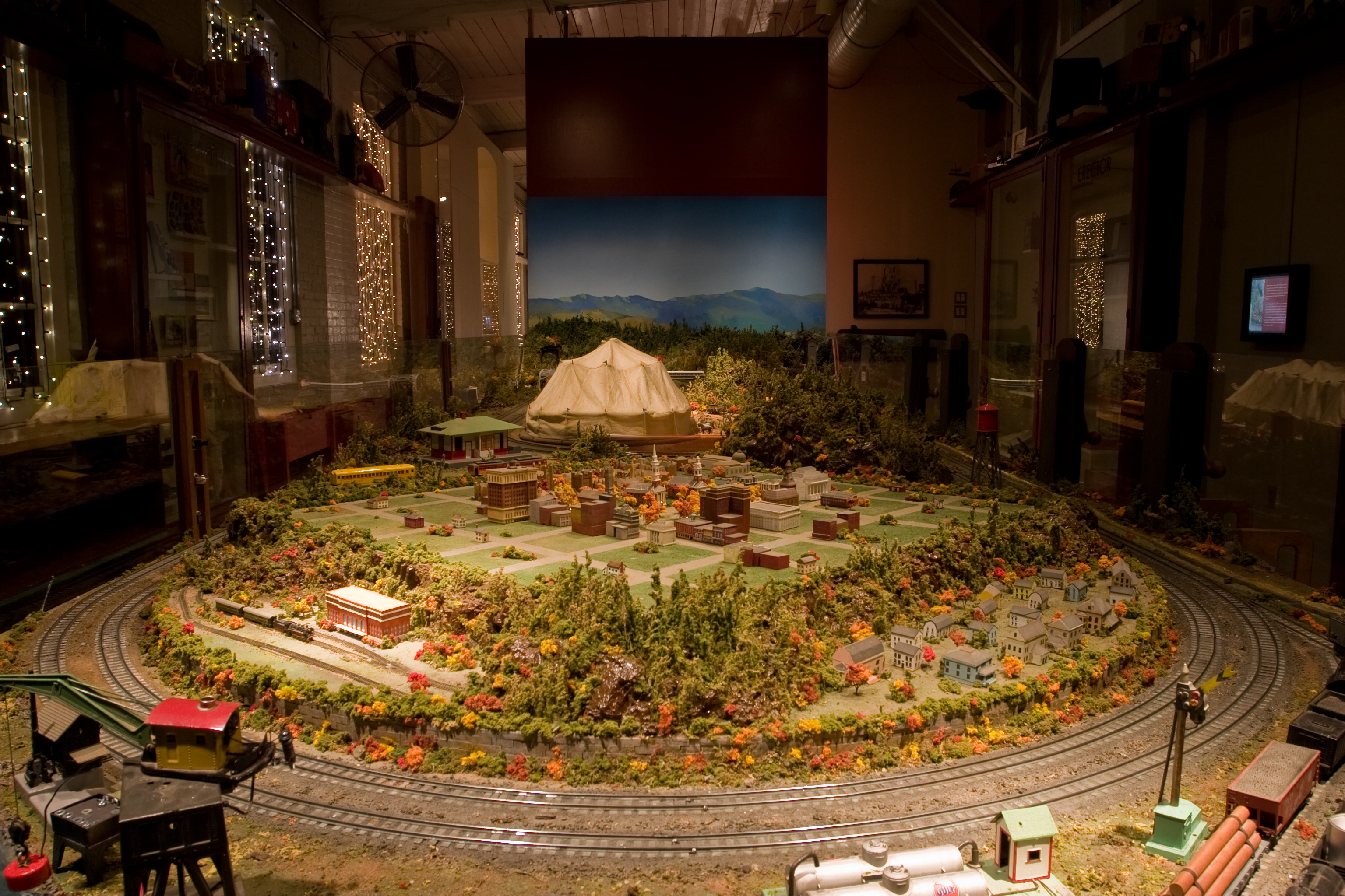 Model train installation at the Eli Whitney Museum in December 2007.